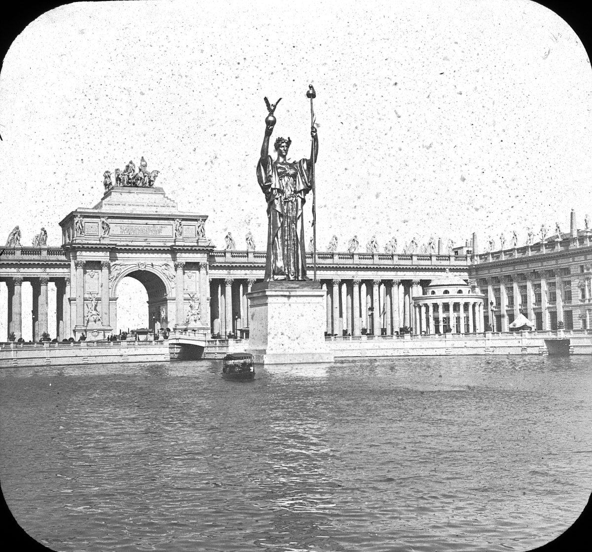 World's Columbian Exposition: Statue of the Republic, Chicago, United States, 1893. Statue of the Republic, taken with a view of the Peristyle in the background; Daniel Chester French. Brooklyn Museum Archives, Goodyear Archival Collection (S03_06_01_016 image 2242). It helps us to know how our visitors work with our images, so if you use it, we'd love to know how! Drop us a line by leaving a comment here or email our archivist: Help us map this image by using Suggestify to suggest a location for it.